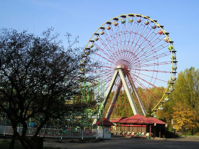 Ferris wheel in the Silesian Culture and Recreation Park in Chorzów, Poland.